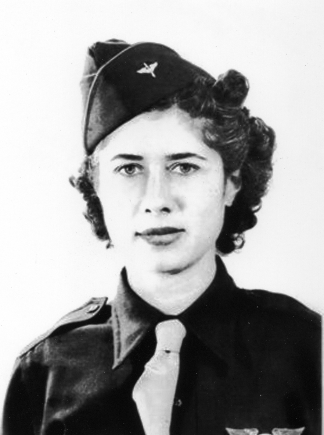 Air Force photo of Gertrude Tompkins Silver a member of the Women Airforce Service Pilots (WASP) during World War II. Missing after flying from Mines Field (LAX) on October 26, 1944 in a P-51D aircraft.